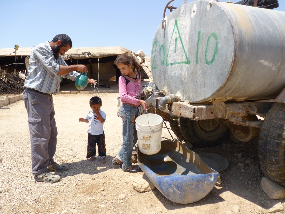 Description from B'Tselem source: "Severe problems with water supply in West Bank and Gaza, February 2014." Photo caption from source: "Village of a-Duqaiqah, South Hebron Hills, not hooked up to water grid; villagers purchase water from water-trucks, paying 4 times as much as the average water tariff for private use in Israel."